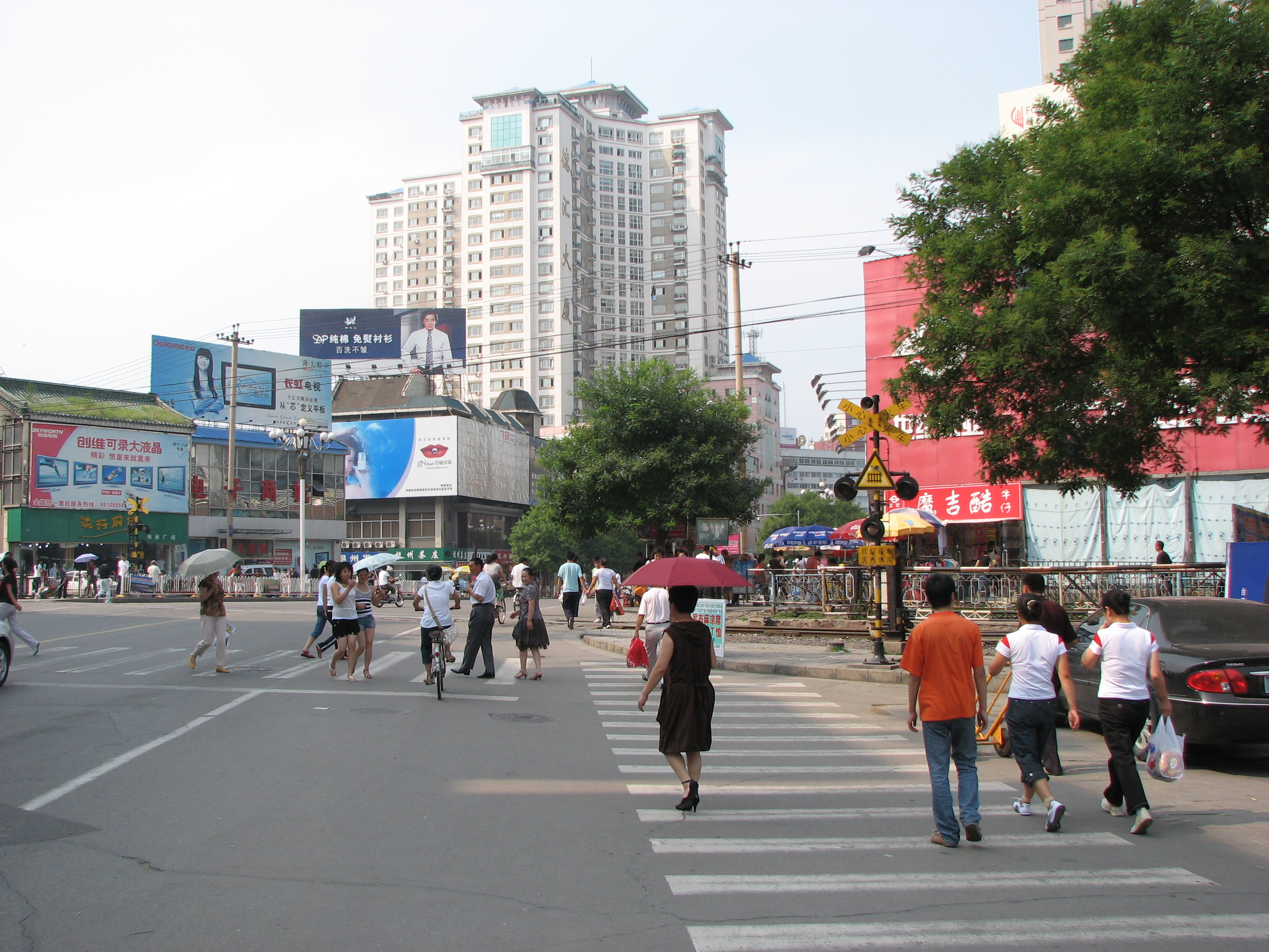 A street in downtown 承德.